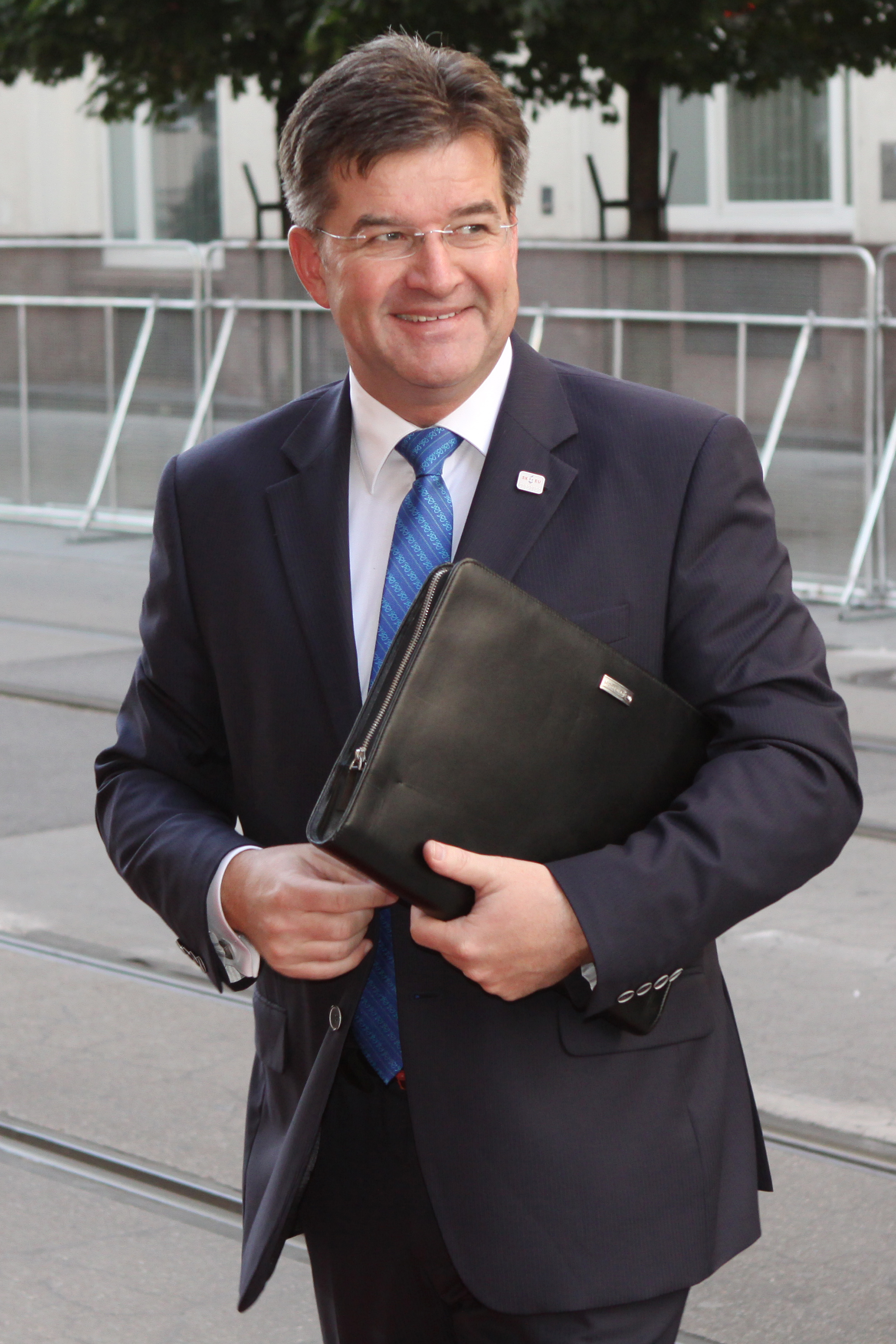 Slovakia, Mr. Miroslav Lajcak, Minister of foreign and European Affairs Informal Meeting of foreign Affairs Ministers (Gymnich) Photo: Andrej Klizan